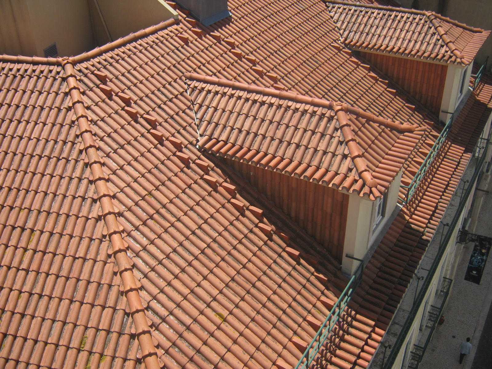 Lisbon, Portugal